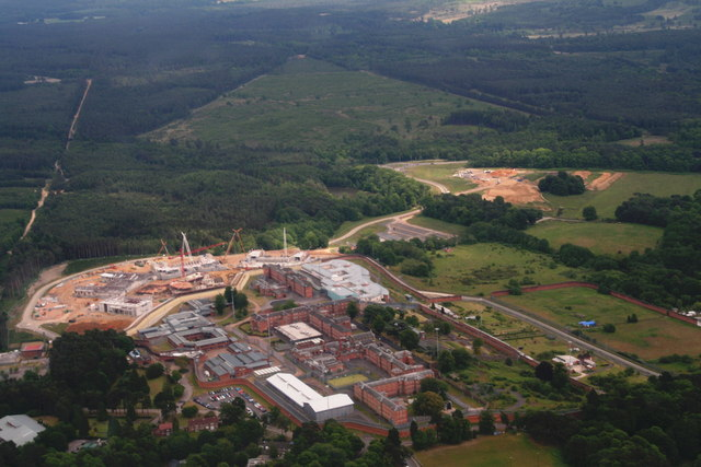 Aerial photograph of Broadmoor Hospital showing building work to expand the site.